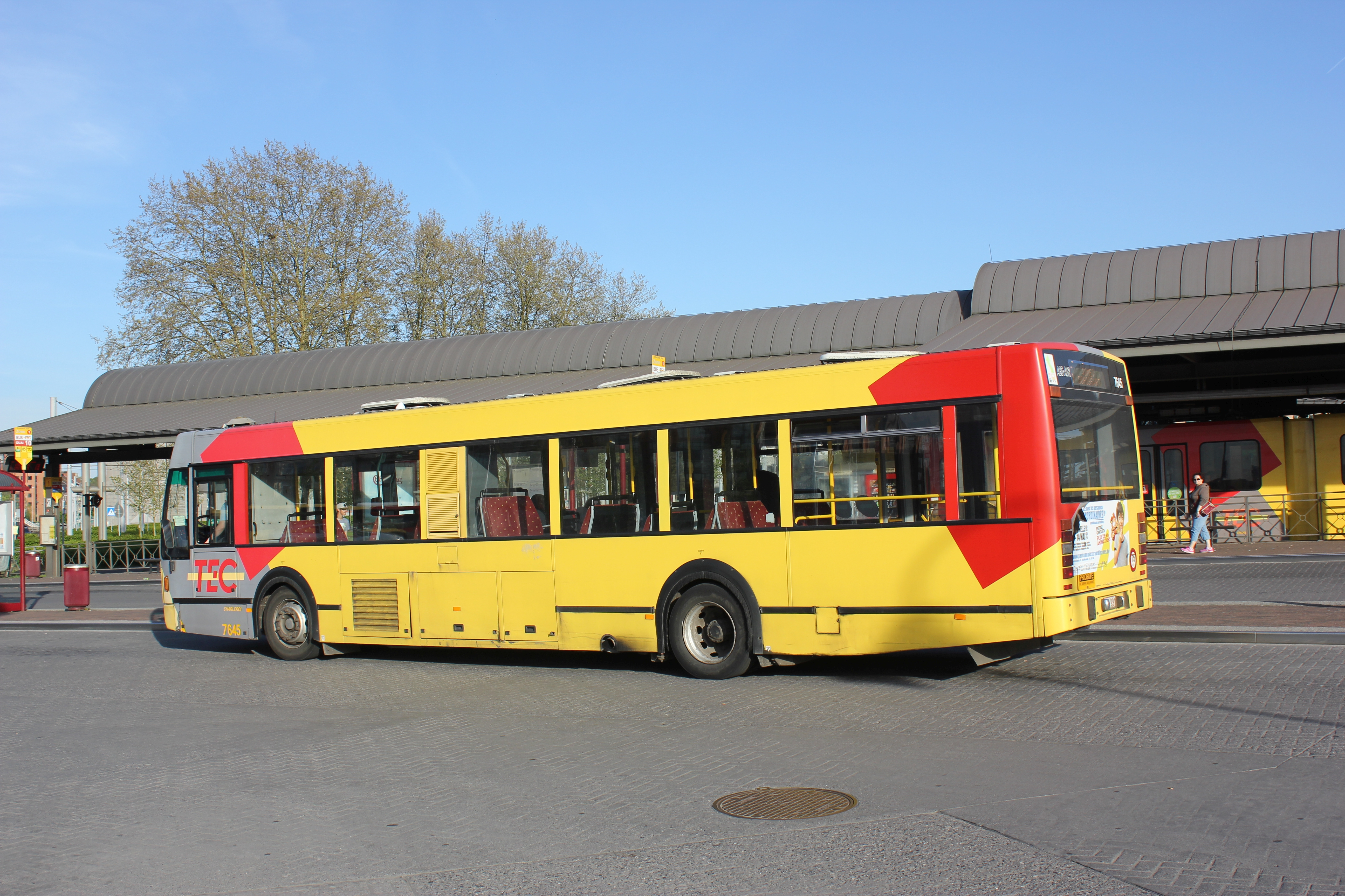 Charleroi - Van Hool A500/2 bus #7645 of TEC at the Charleroi Sud terminus